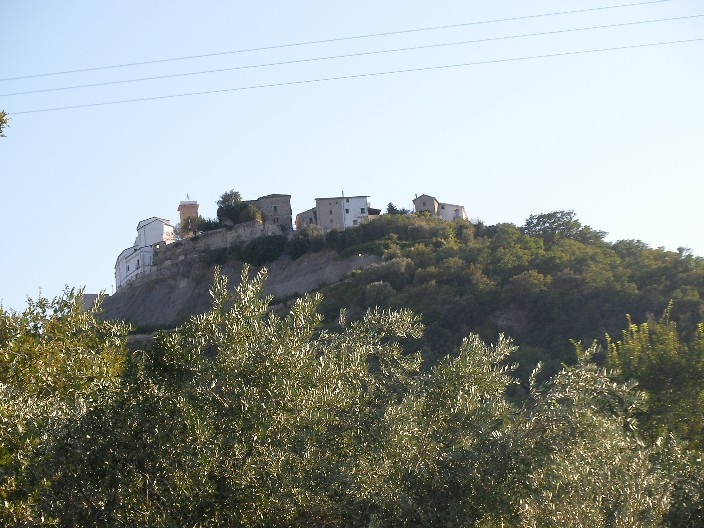 Sight of Altino